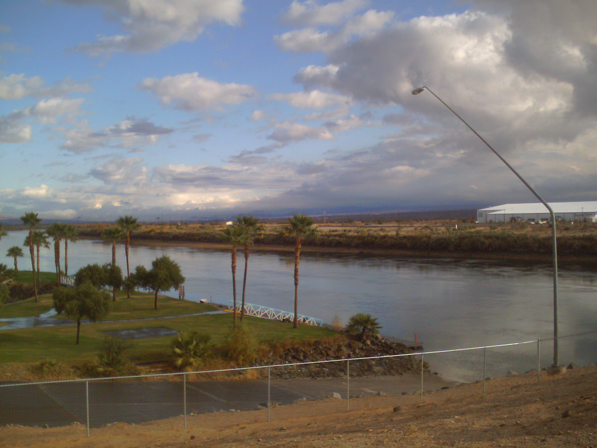 A view of the Colorado River from the bridge from Fort Mohave to the Ahi Mohave Reservation.